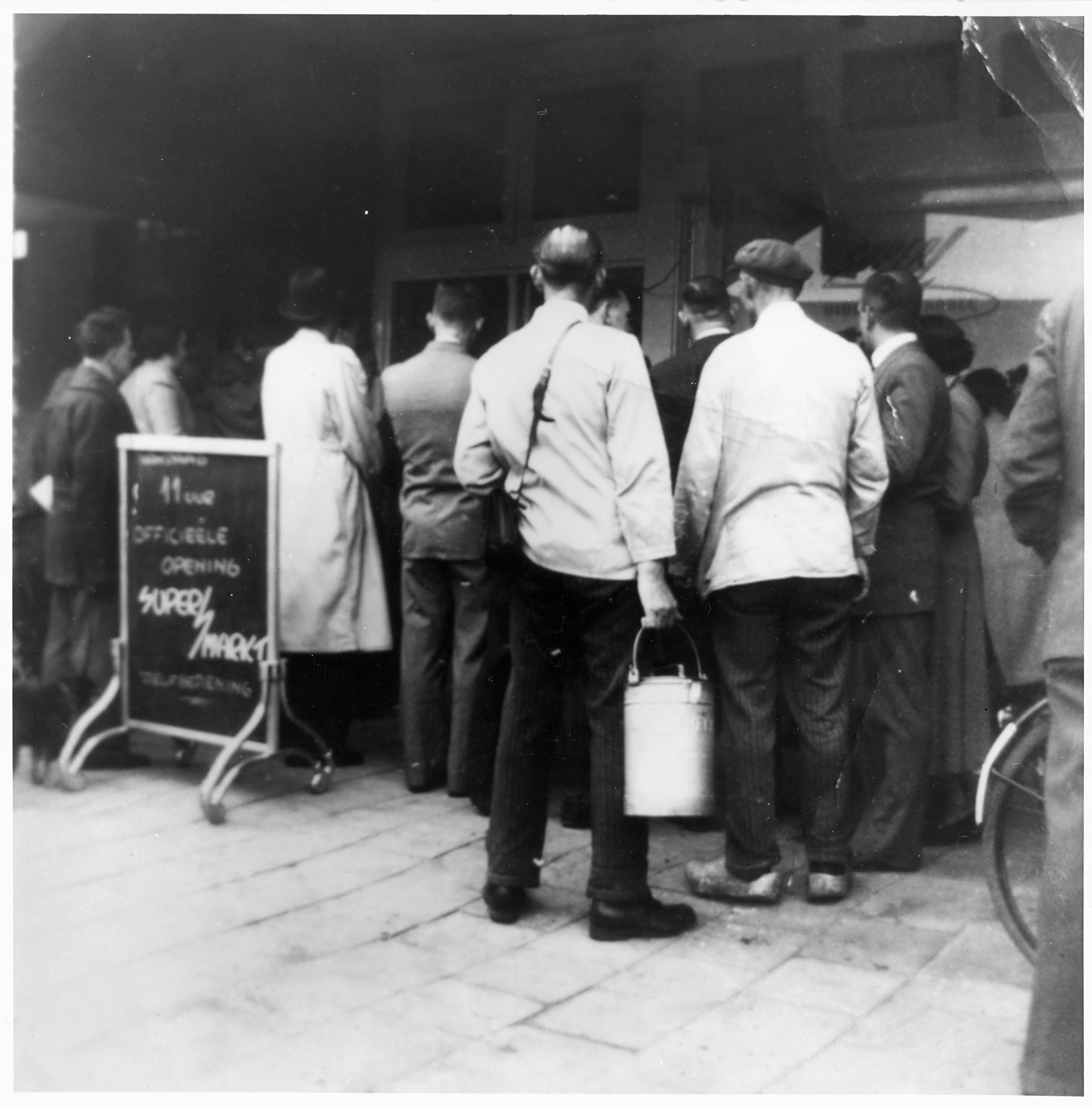 First supermarket in the Netherlands